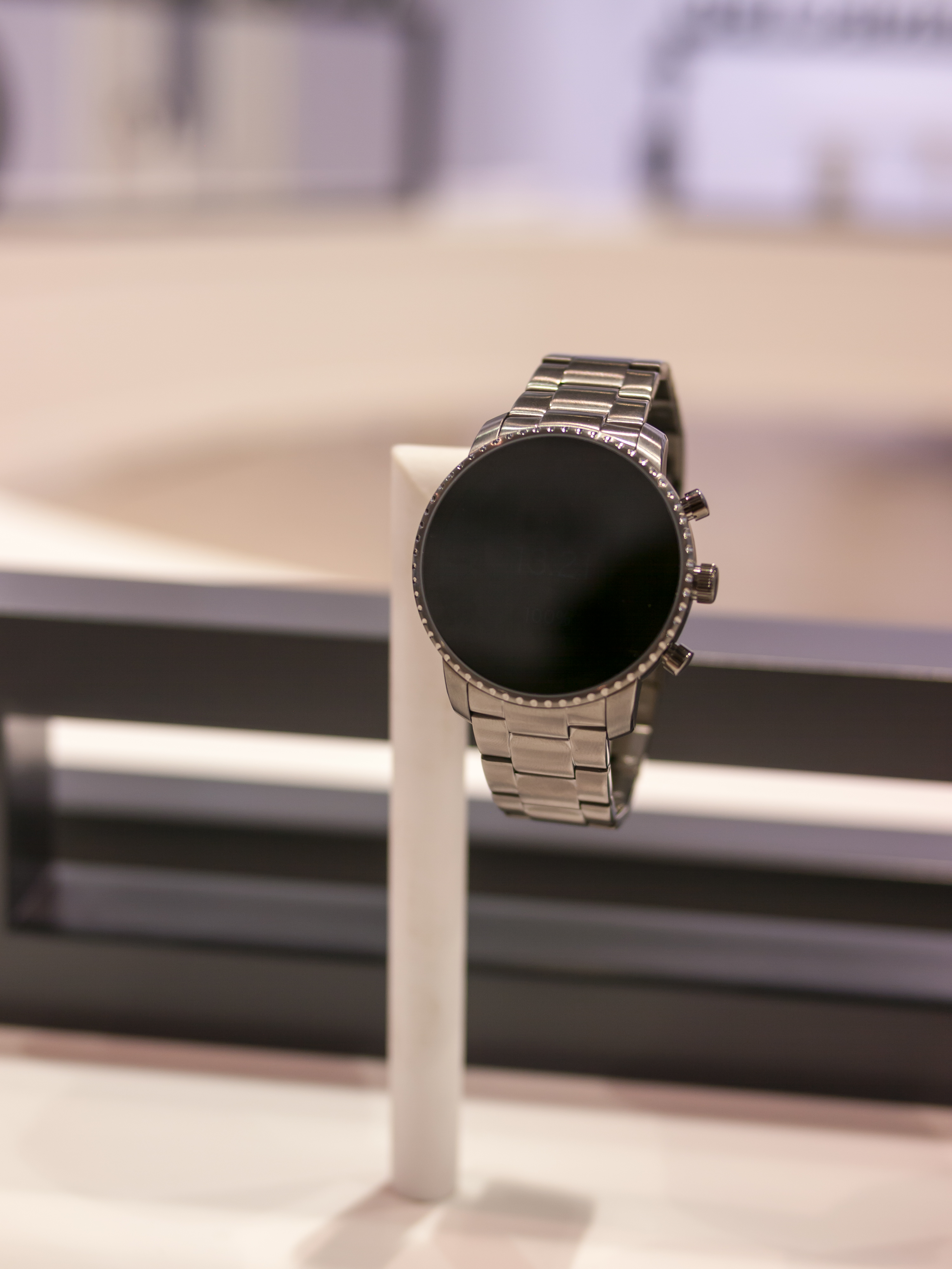 Fossil Group, Internationale Funkausstellung 2018, Berlin